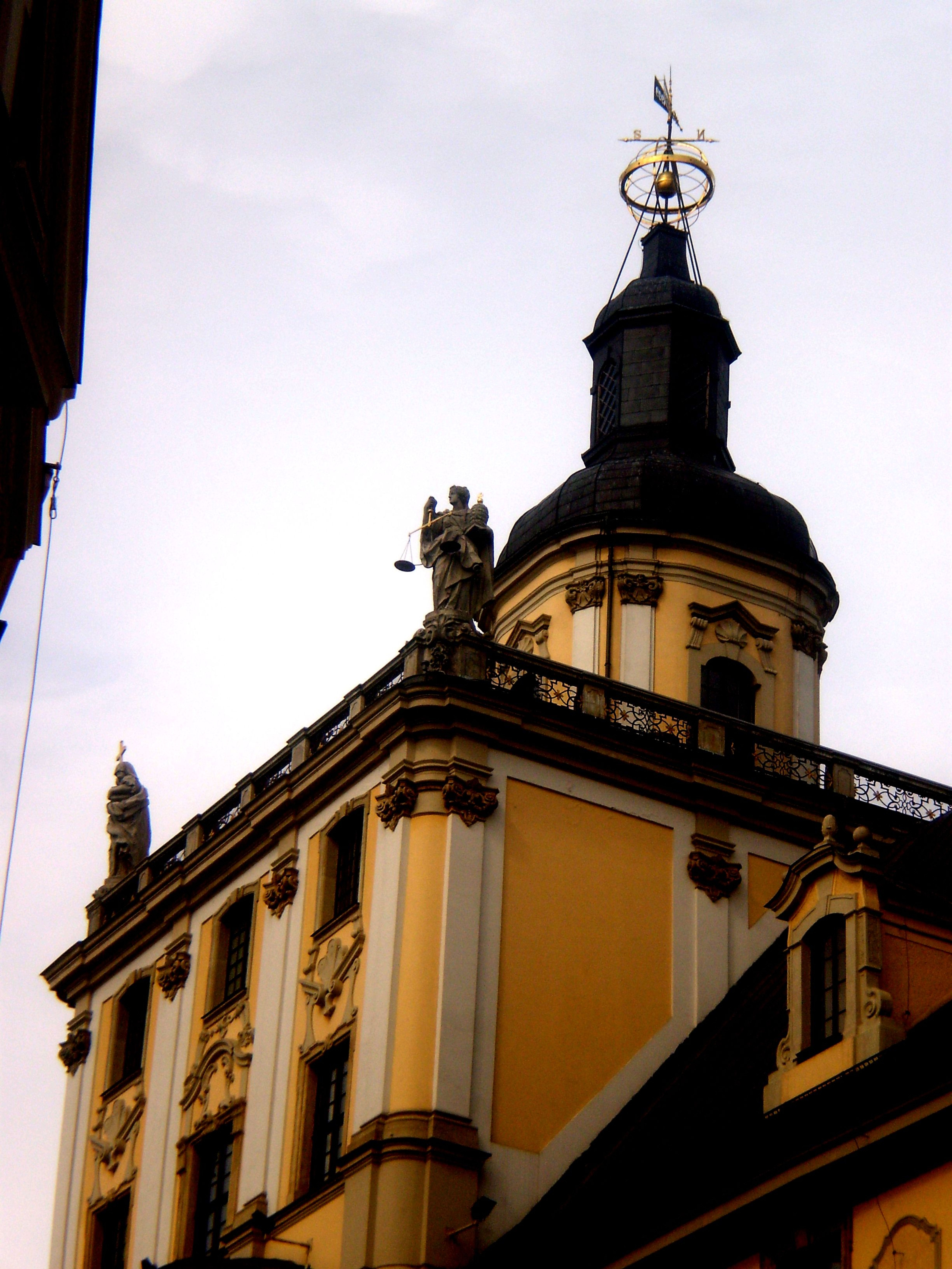 Mathematical Tower, Wroclaw - Poland.